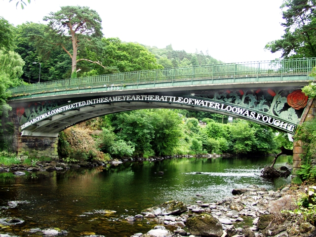 Betws Y Coed iron bridge The famous Waterloo Bridge